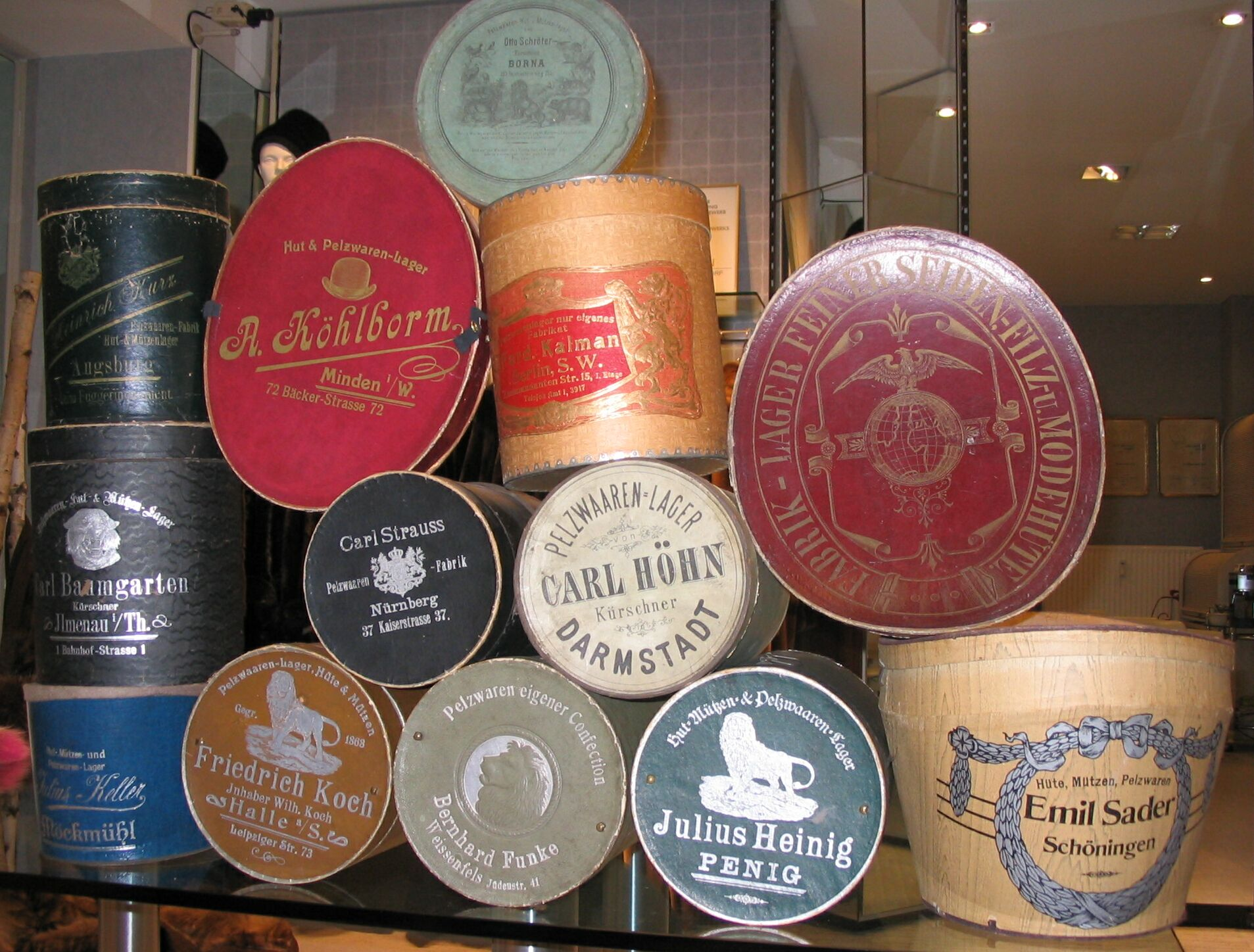 Furrier's hat and cuff bandboxes